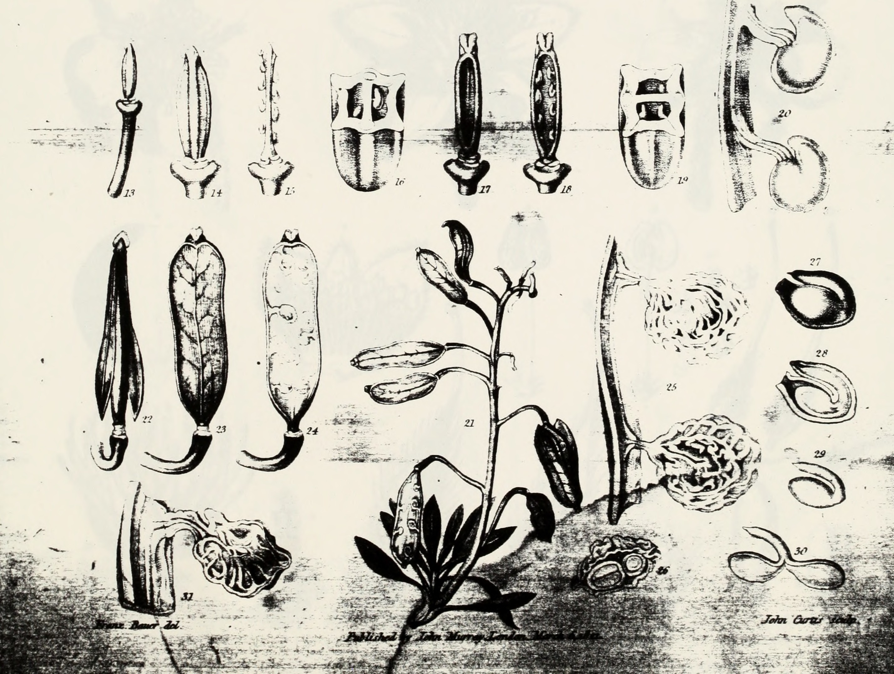 Title: Chloris Melvilliana : a list of plants collected in Melville Island, (latitude 74-75 N., longitude 110-112 W.) in the year 1820 Year: 1823 (1820s) Authors: Parry, William Edward, Sir, 1790-1855. Journal of a voyage for the discovery of a north-west passage from the Atlantic to the Pacific; Brown, Robert, 1773-1858 Subjects: Botany Publisher: London : Printed by W. Clowes Text Appearing Before Image: 2? &* Text Appearing After Image: '